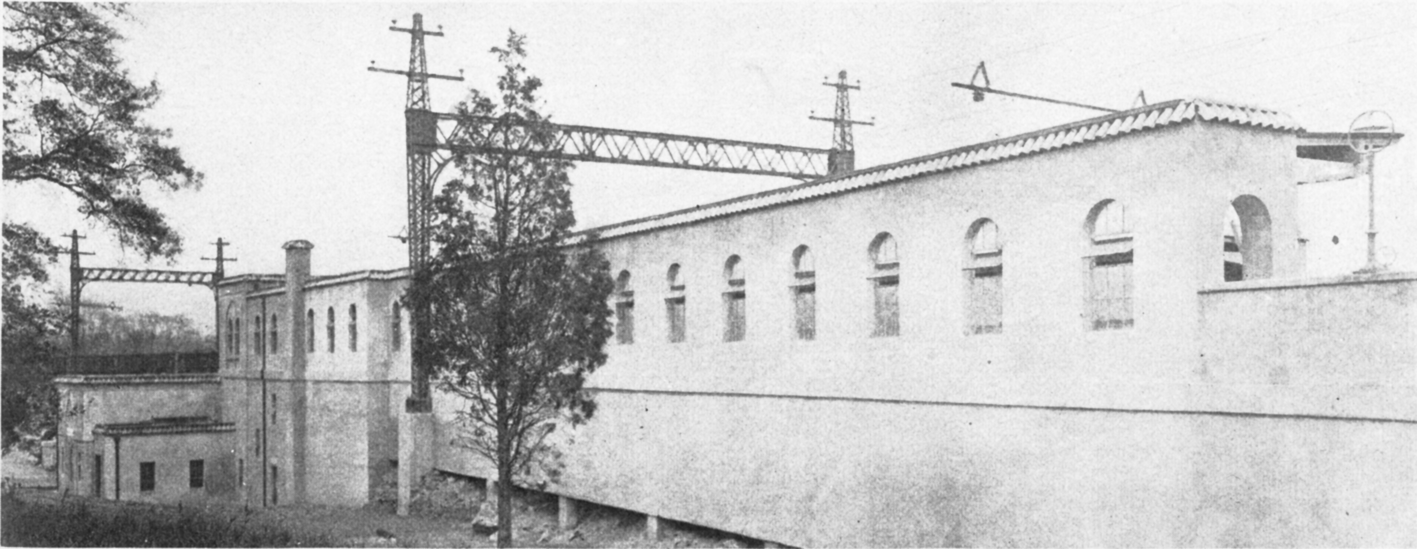 Typical station at a high embankment on the New York, Westchester and Boston Railway.